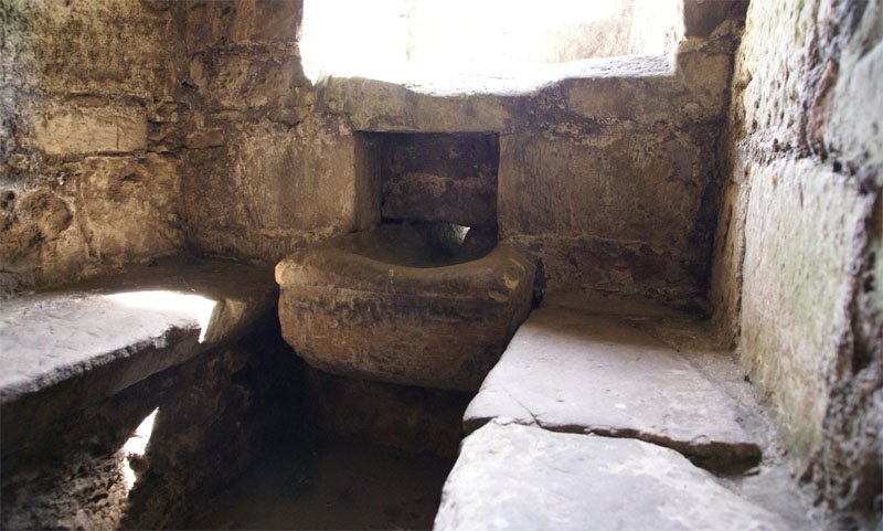 Lochleven Castle (Kinross, Scotland) - drain in kitchen